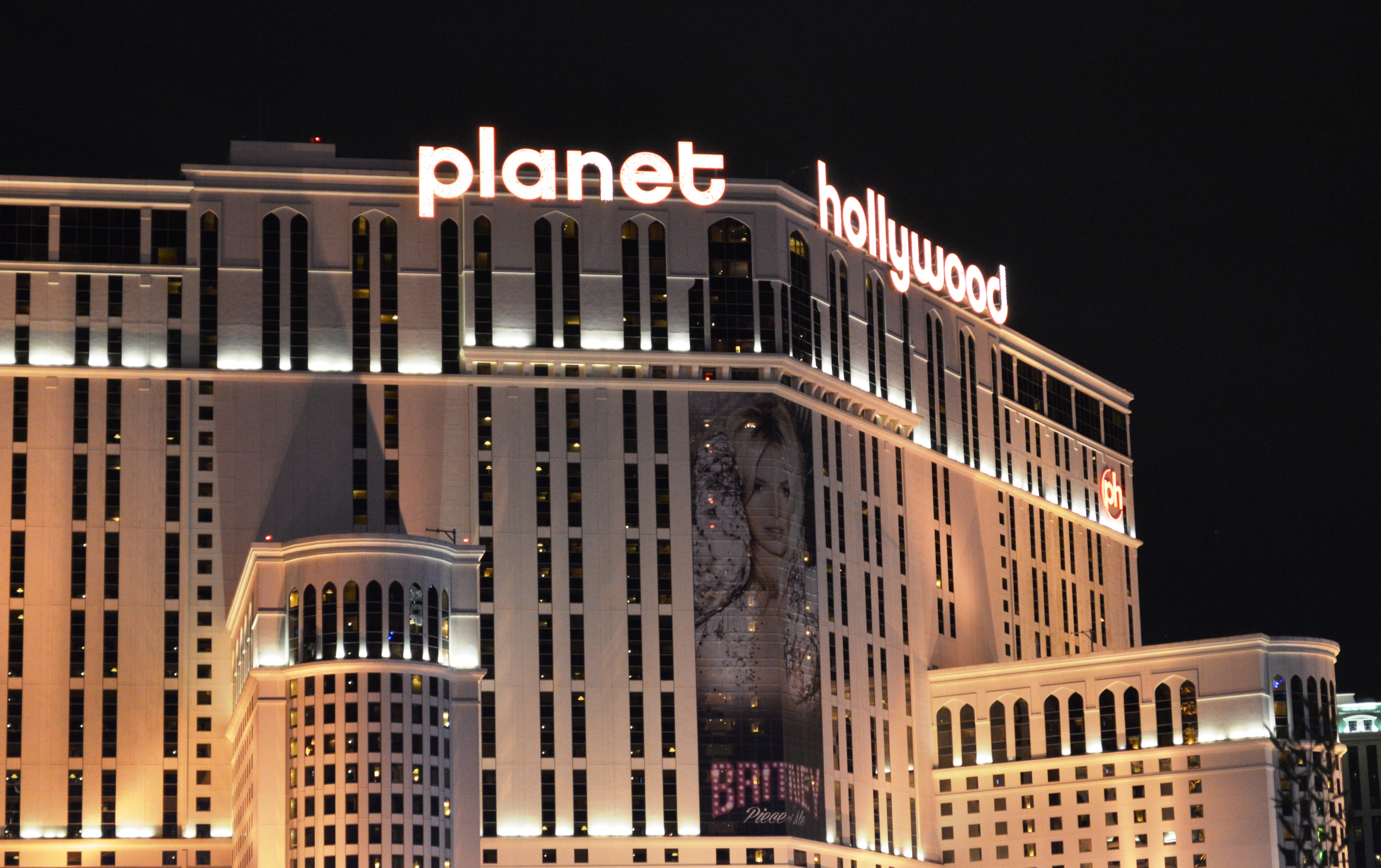 Planet Hollywood Resort and Casino on the Las Vegas Strip, as seen from Bellagio.